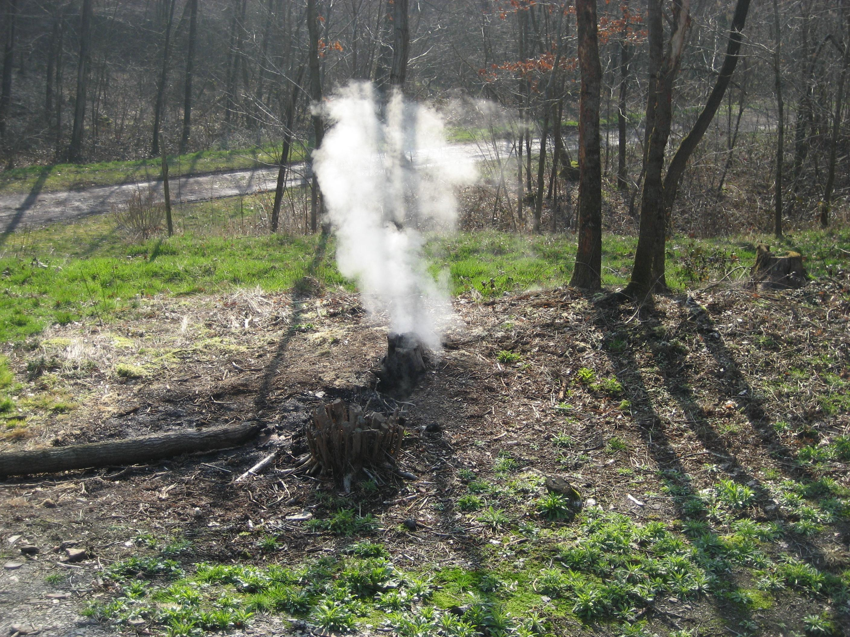 Smoke coming out of a tree stump in Cransac, France